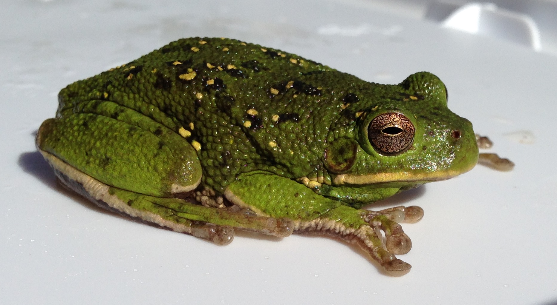 An adult male Hyla gratiosa (barking treefrog) at the University of Mississippi Field Station.